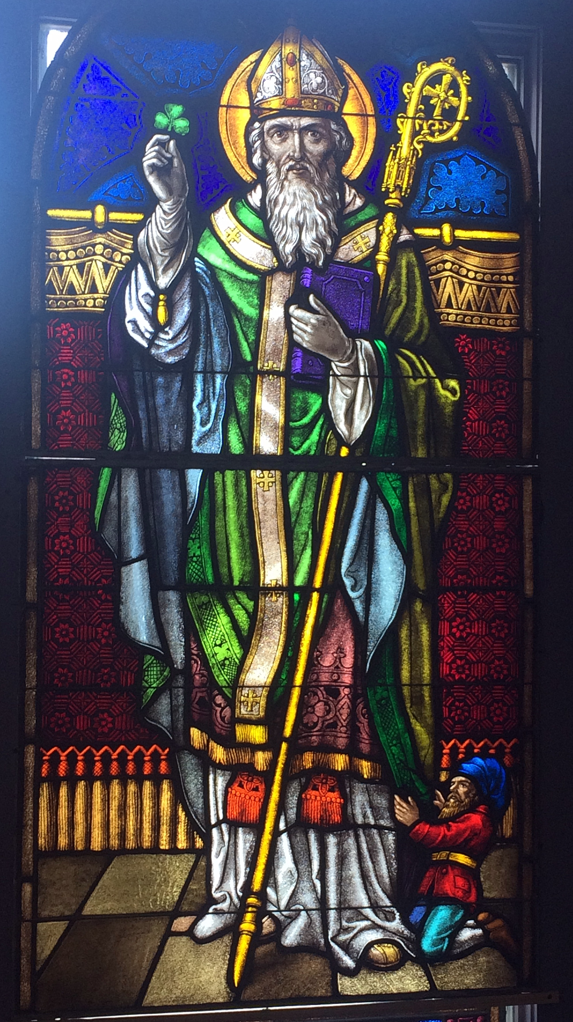 Jubilee Museum and Catholic Cultural Center (Columbus, Ohio) - stained glass, Saint Patrick and a leprechaun